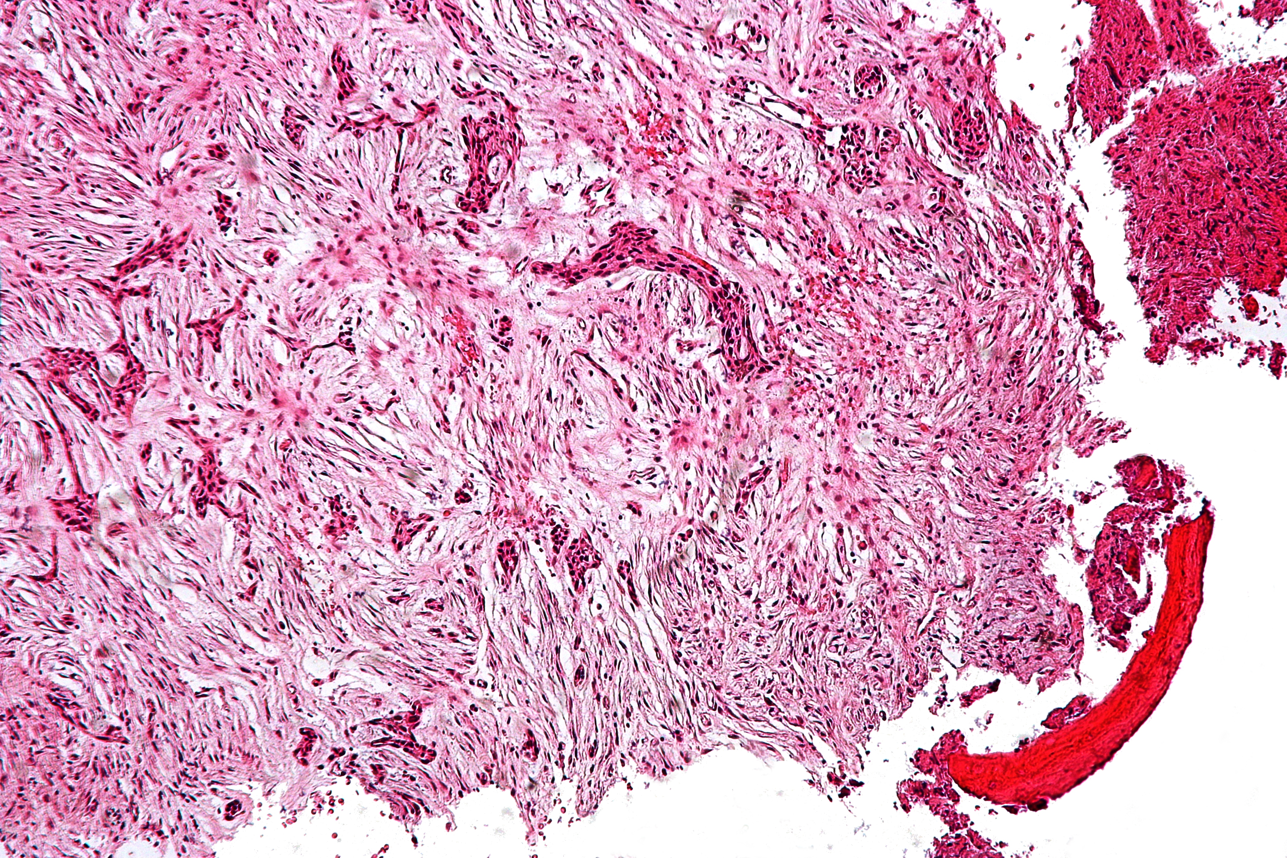 Intermediate magnification micrograph of an adamantinoma. H&E stain.